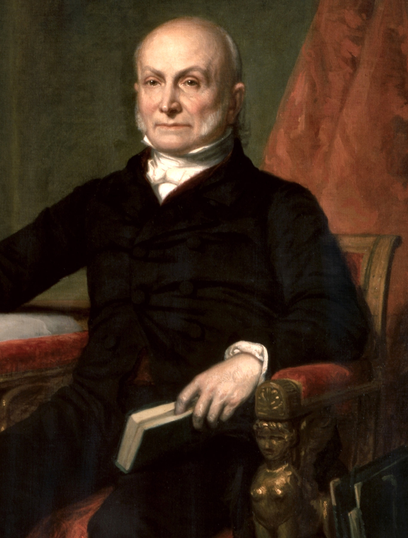 Cropped version of File:John Quincy Adams by GPA Healy, 1858.jpg